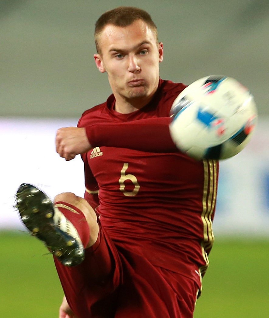 Sergei Makarov in action for the Russia national under-21 football team in a game against Finland under-21.